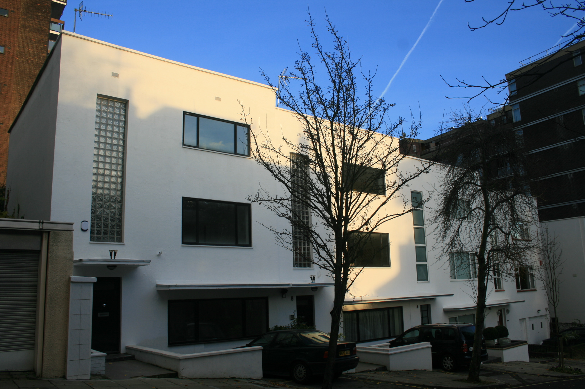 Terrace of houses, St. John's Wood, London, UK, built 1934-1936. Architects: Thomas S. Tait/Burnet, Tait & Lorne